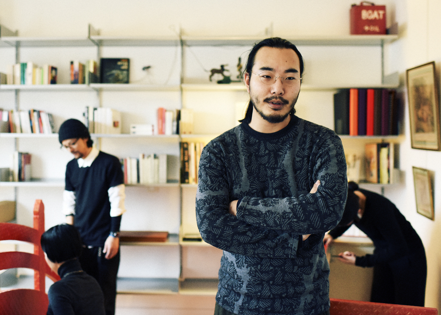 Noritaka Tatehana photo by GION